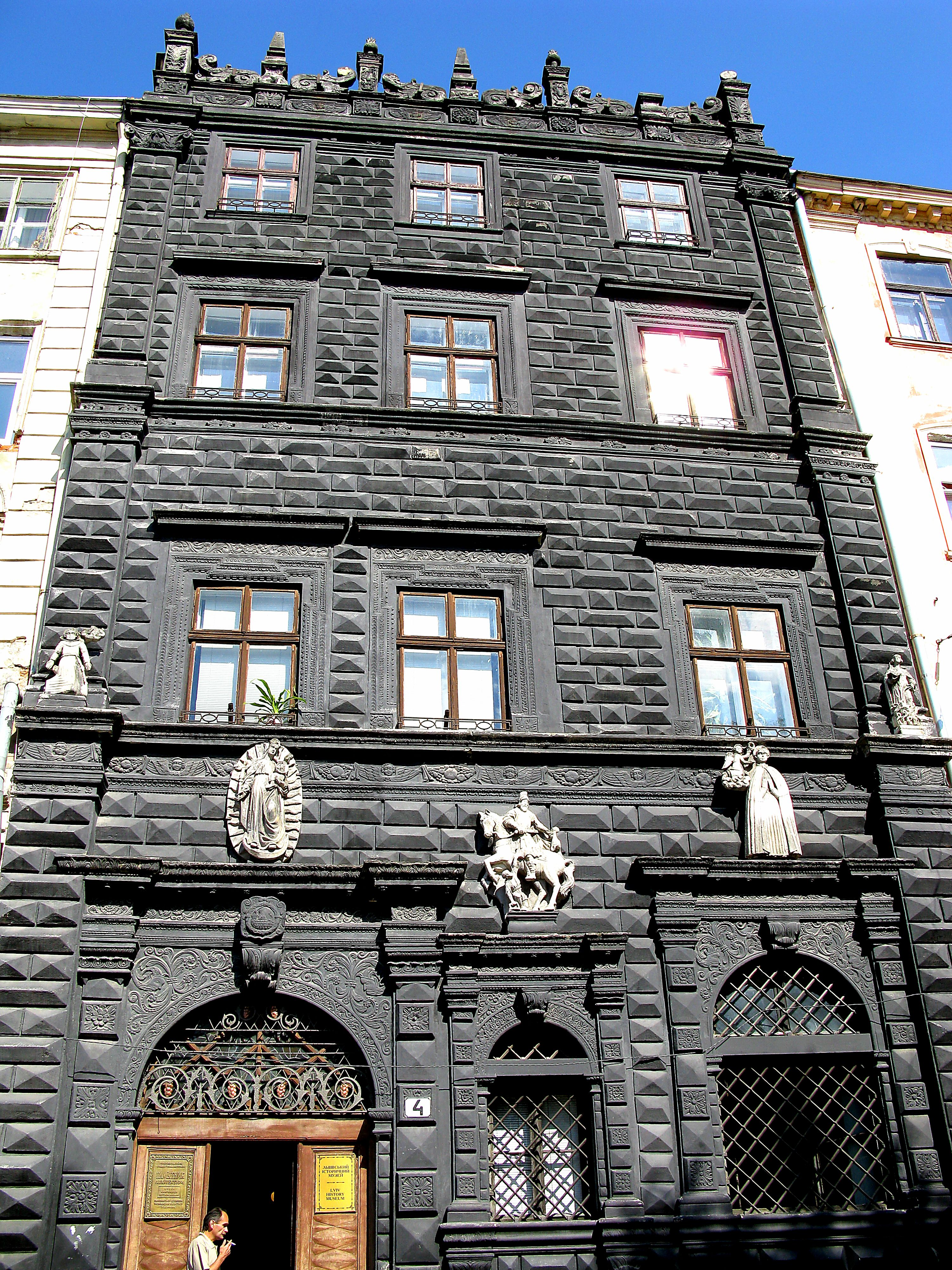 Black House in Market Square in Lviv